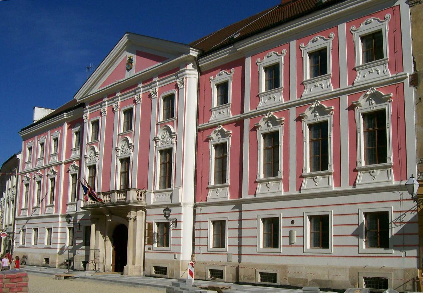 County Palace Varaždin